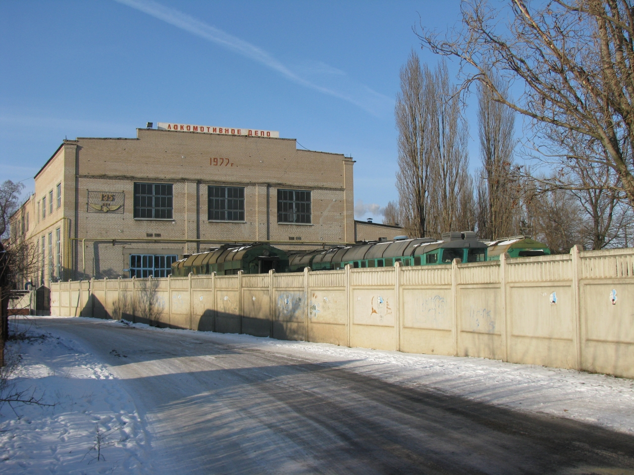 Rail yard in the city of Melitopol